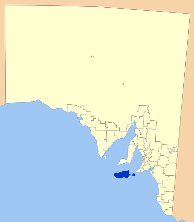 Modification of Astrokey44's original map found here: File:SA_LGA_blank.png Position of Coober pedy LGA